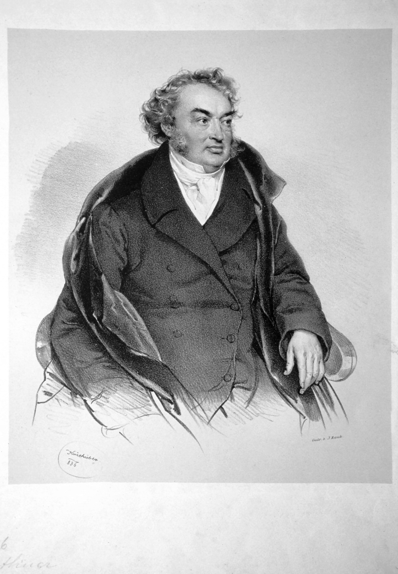 Bruno Görgen (1777-1842), Arzt und Psychiater in Wien